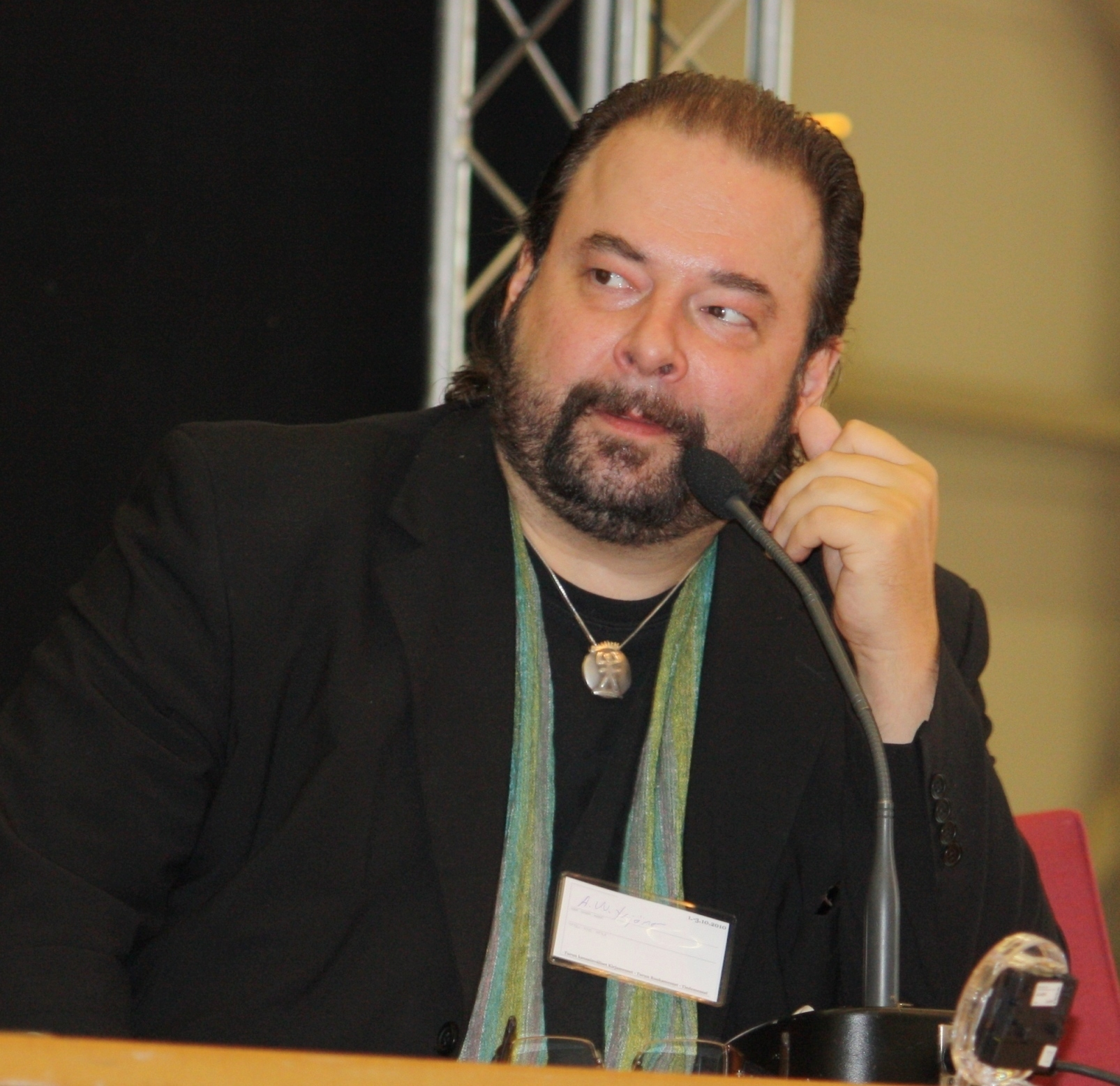 Singer of Finnish band CMX and poet A. W. Yrjänä at the Turku Book Fair 2010.